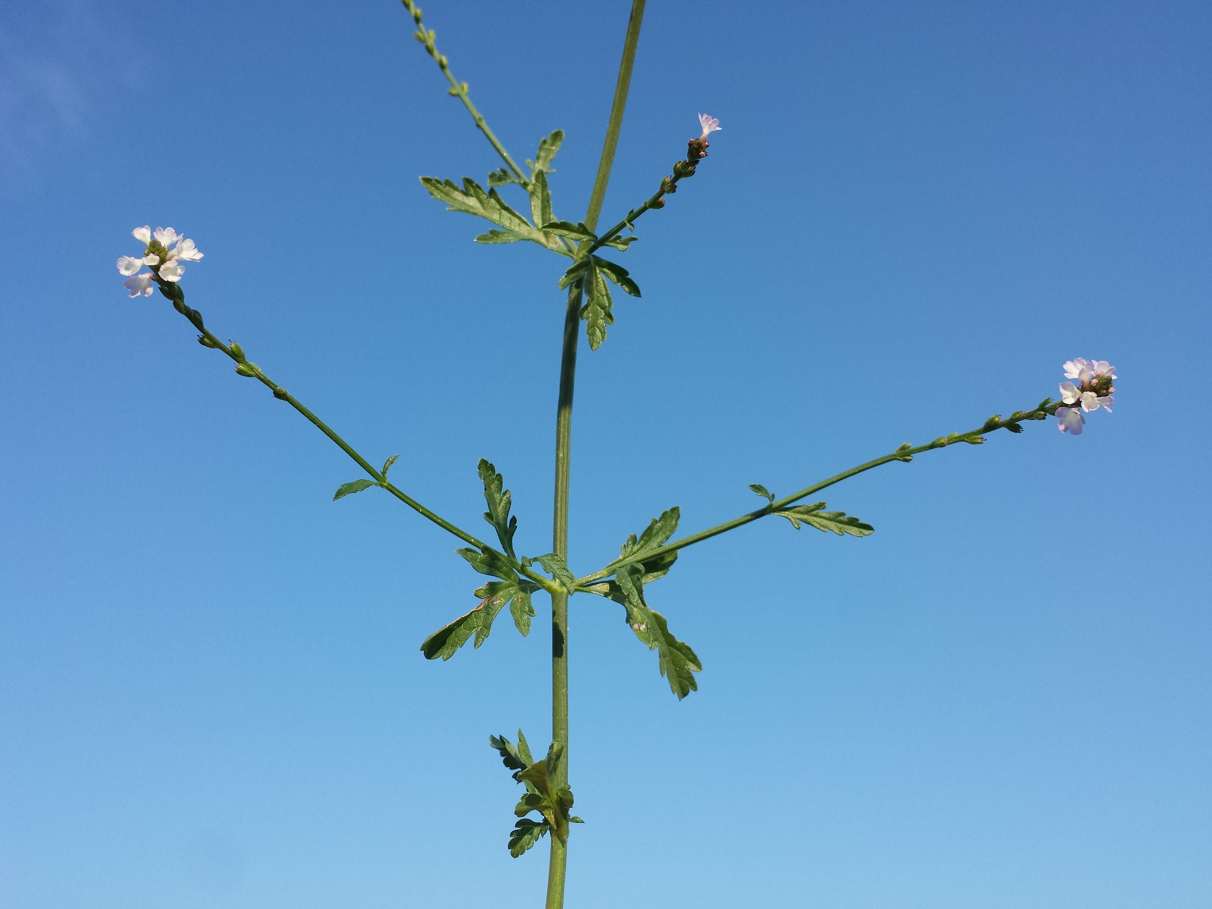 Stem with leaves and inflorescences Taxonym: Verbena officinalis ss Fischer et al. EfÖLS 2008 ISBN 978-3-85474-187-9 Location: Stammersdorfer Zentralfriedhof cemetery, Vienna-Floridsdorf - ca. 160 m a.s.l. Habitat: grave